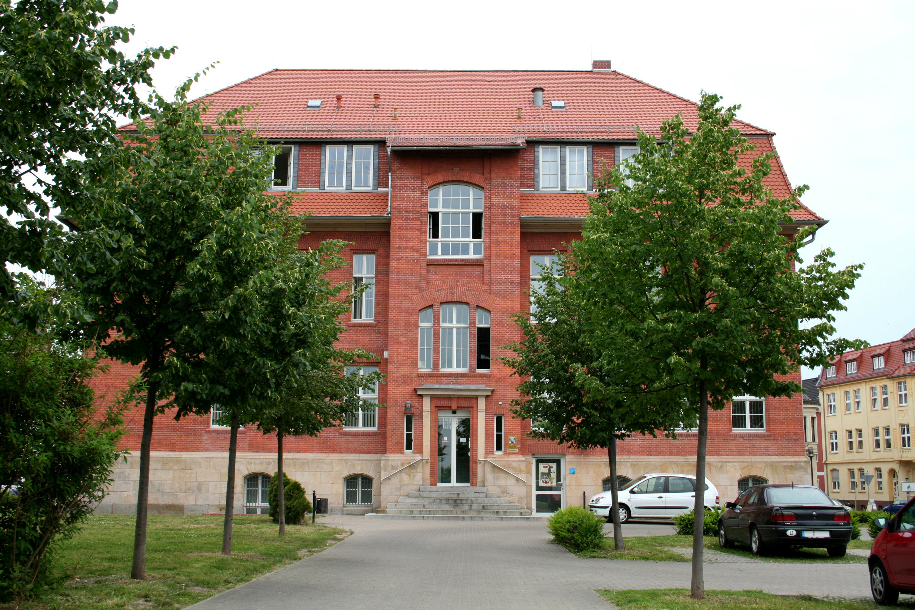 Townhall, Staßfurt